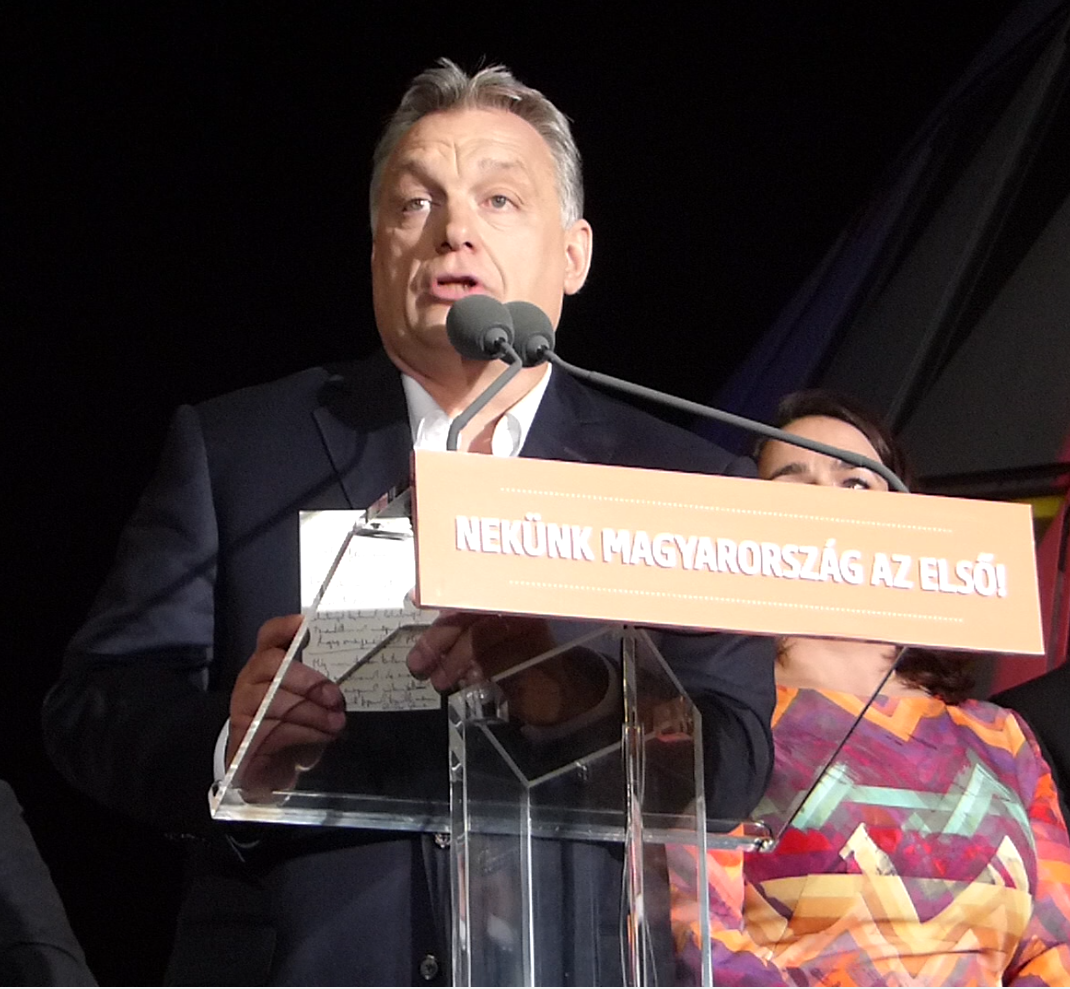 Election 2018 in Hungary. Taken on the 8th of April, 2018, around 23.35. Bálna, Budapest. Orbán Viktor announcing the victory of the FIDESZ party.